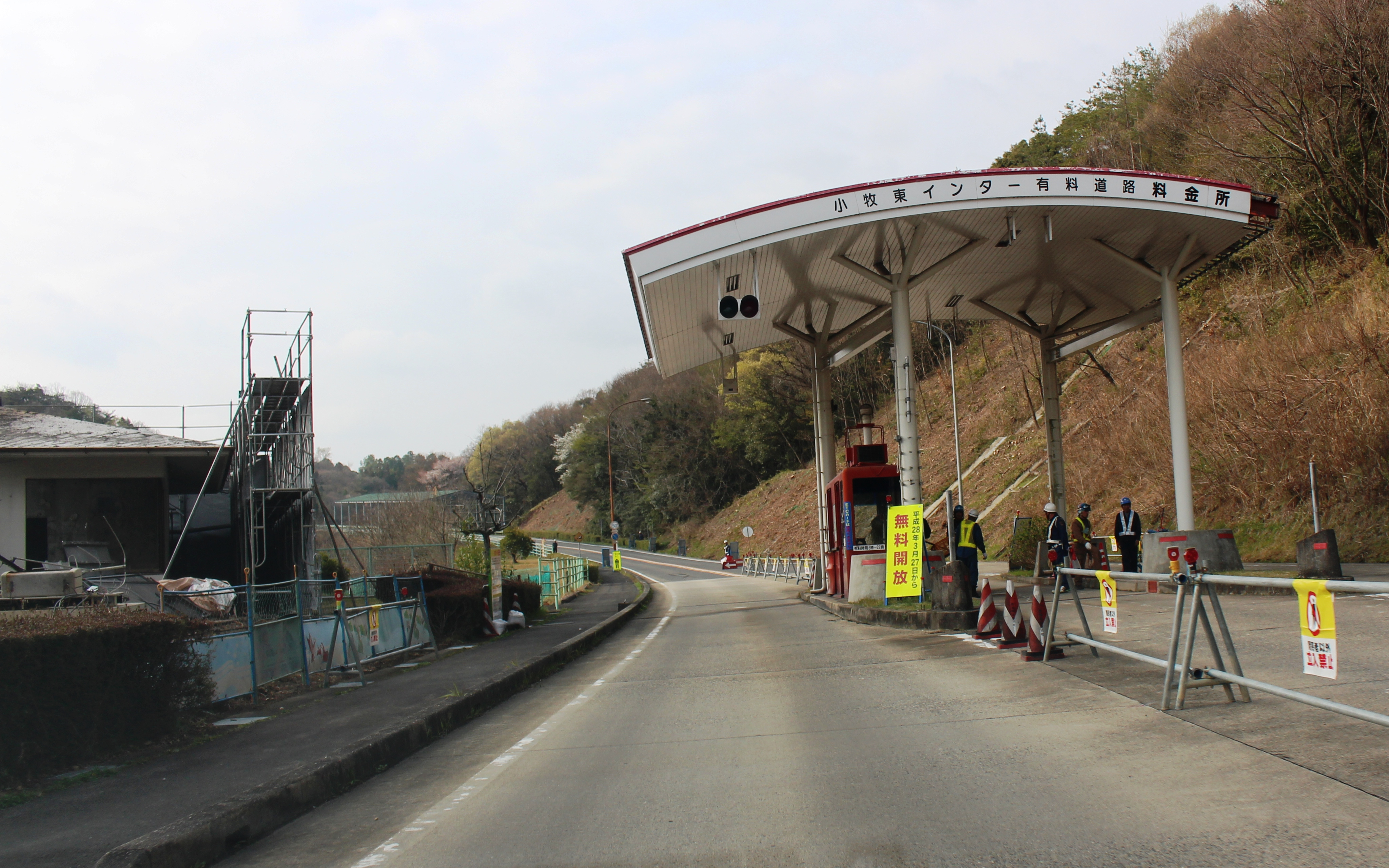 Tollgate of Komaki Higashi IC roads under removing in Kasugai, Aichi prefecture, Japan.